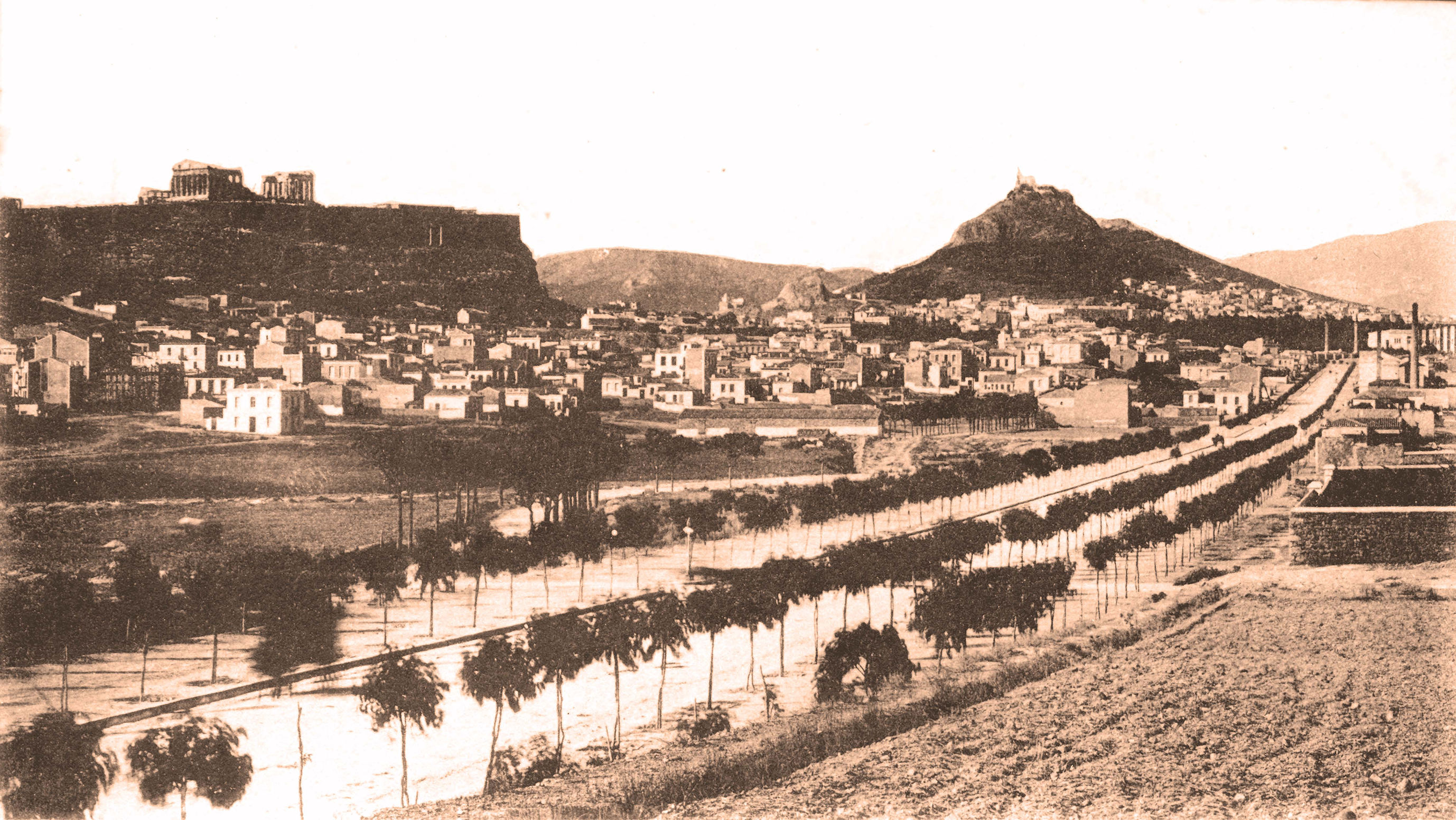 photo scanned and adjusted from postcard view